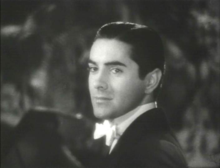 Screenshot of Tyrone Power from the trailer for the film Alexander's Ragtime Band